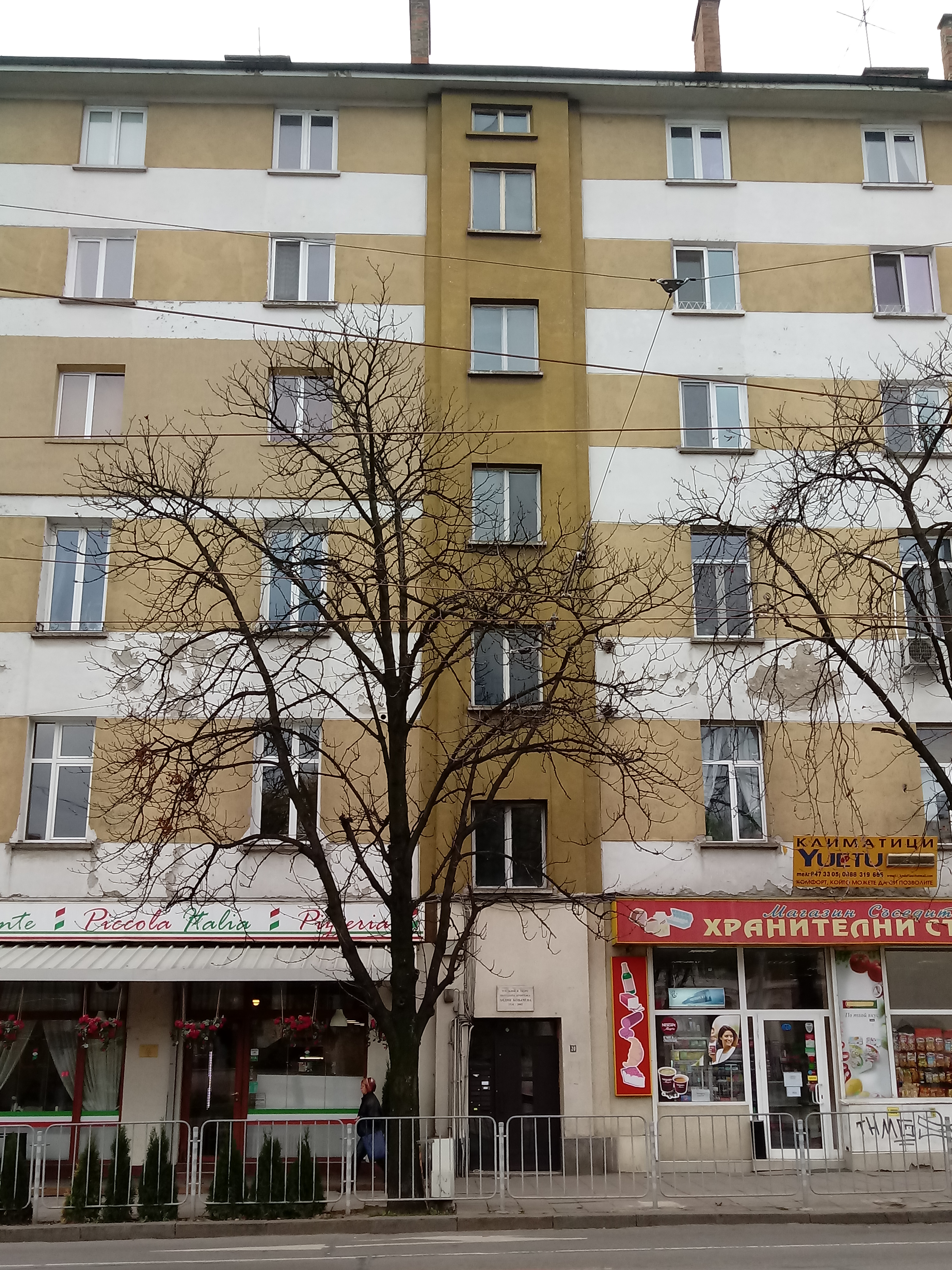 Lidia Kovacheva home with memorial plaque. Yanko Sakazov Blvd., Sofia